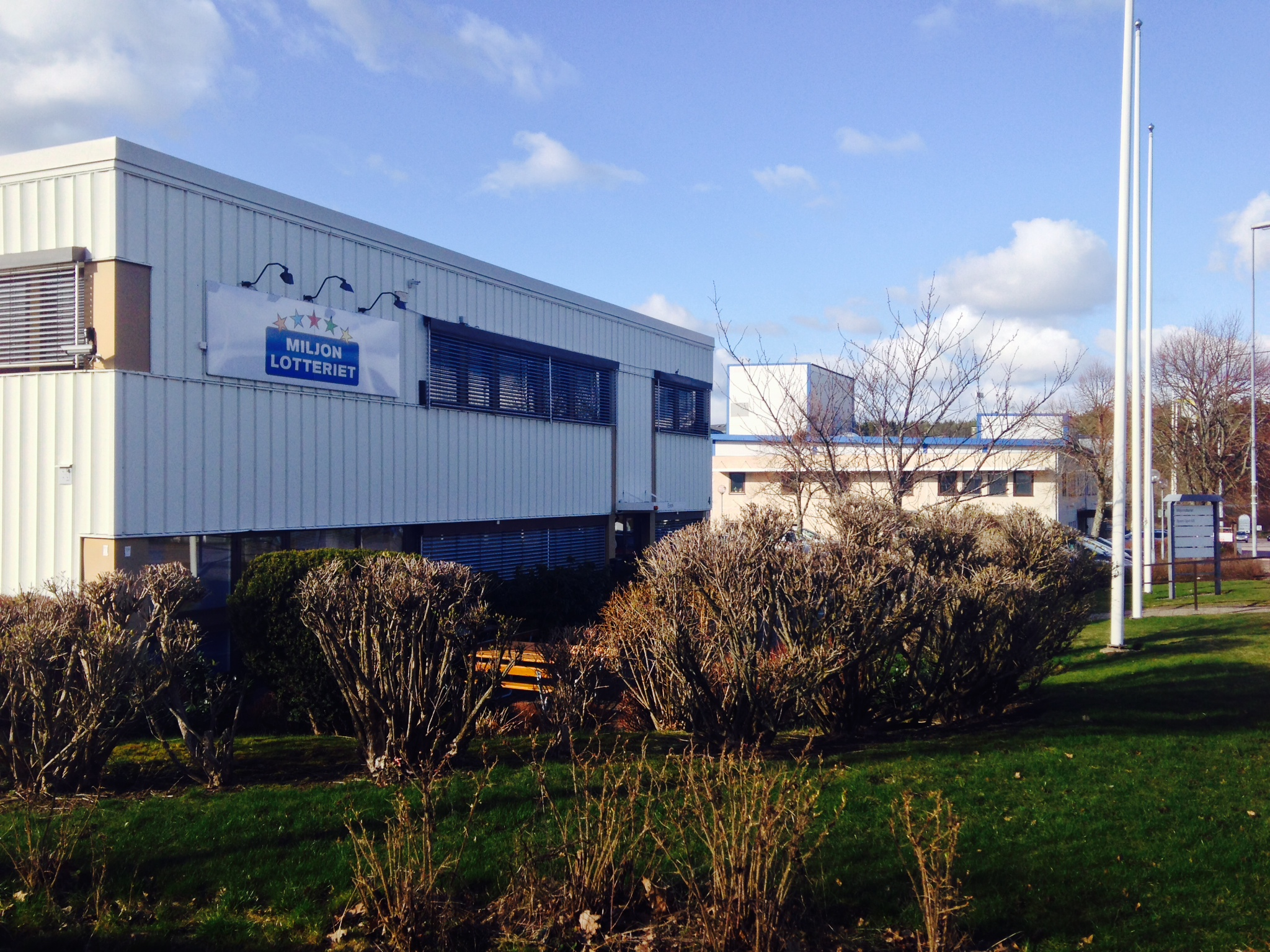 Miljonlotteriet headquarters in Mölnlycke